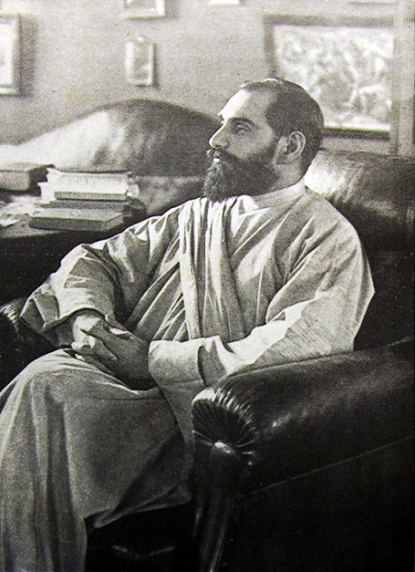 Sadhu Sundar Singh (1889-1929).